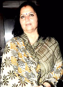 Yogita Bali at 'Haunted - 3D' success bash